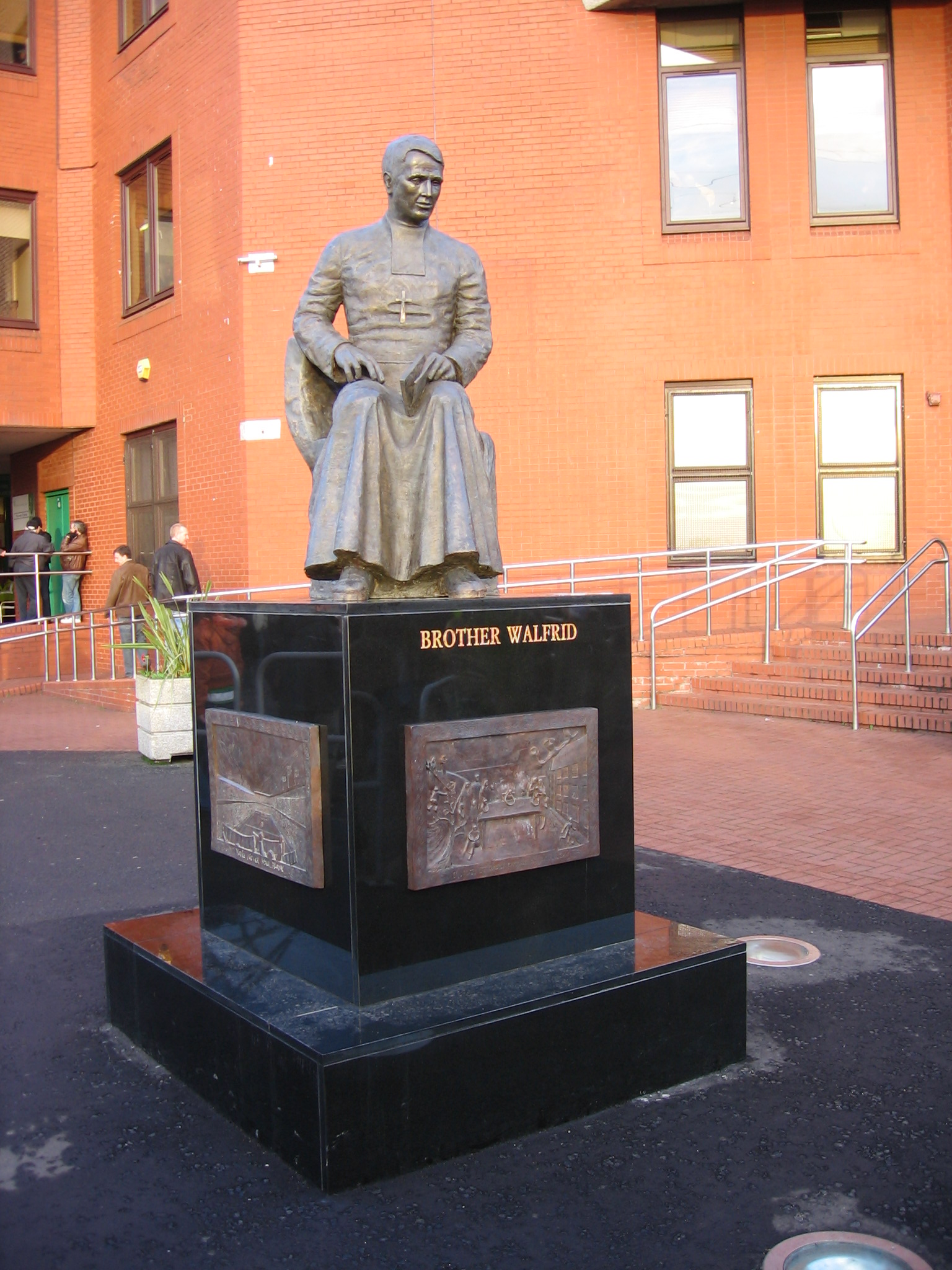 Photo taken by my brother, 2005, released to public domain